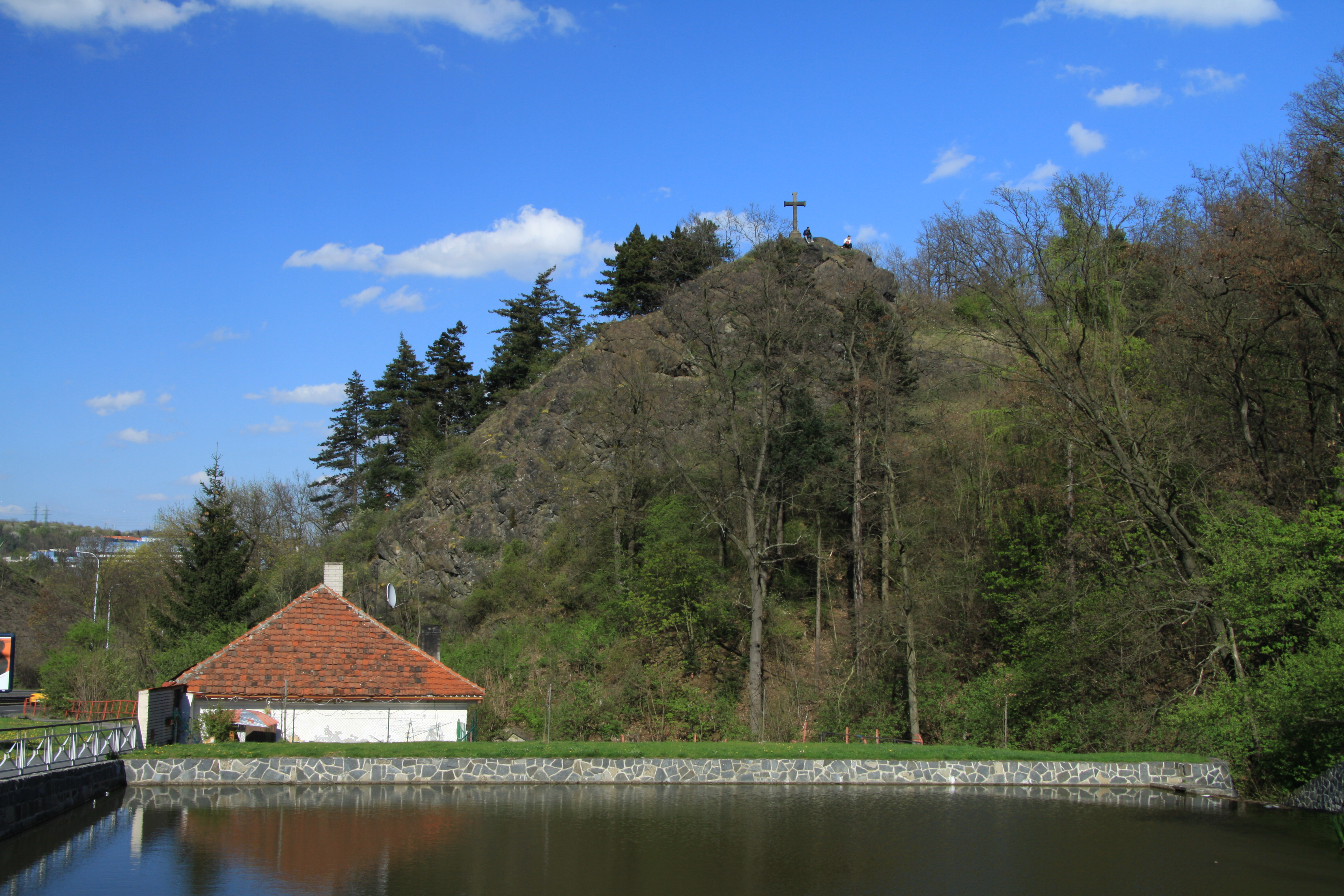 Natural monuent Kalvárie v Motole (Calvary in Motol) in Prague, Czech Republic - Google Maps - Google Earth